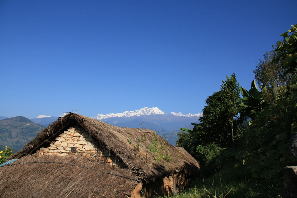 View of Annapurna II from Lamjung